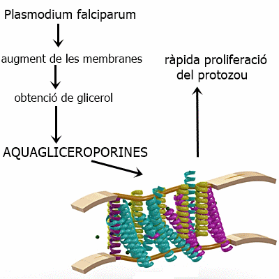 Paper de les aquagliceroporines en la malària